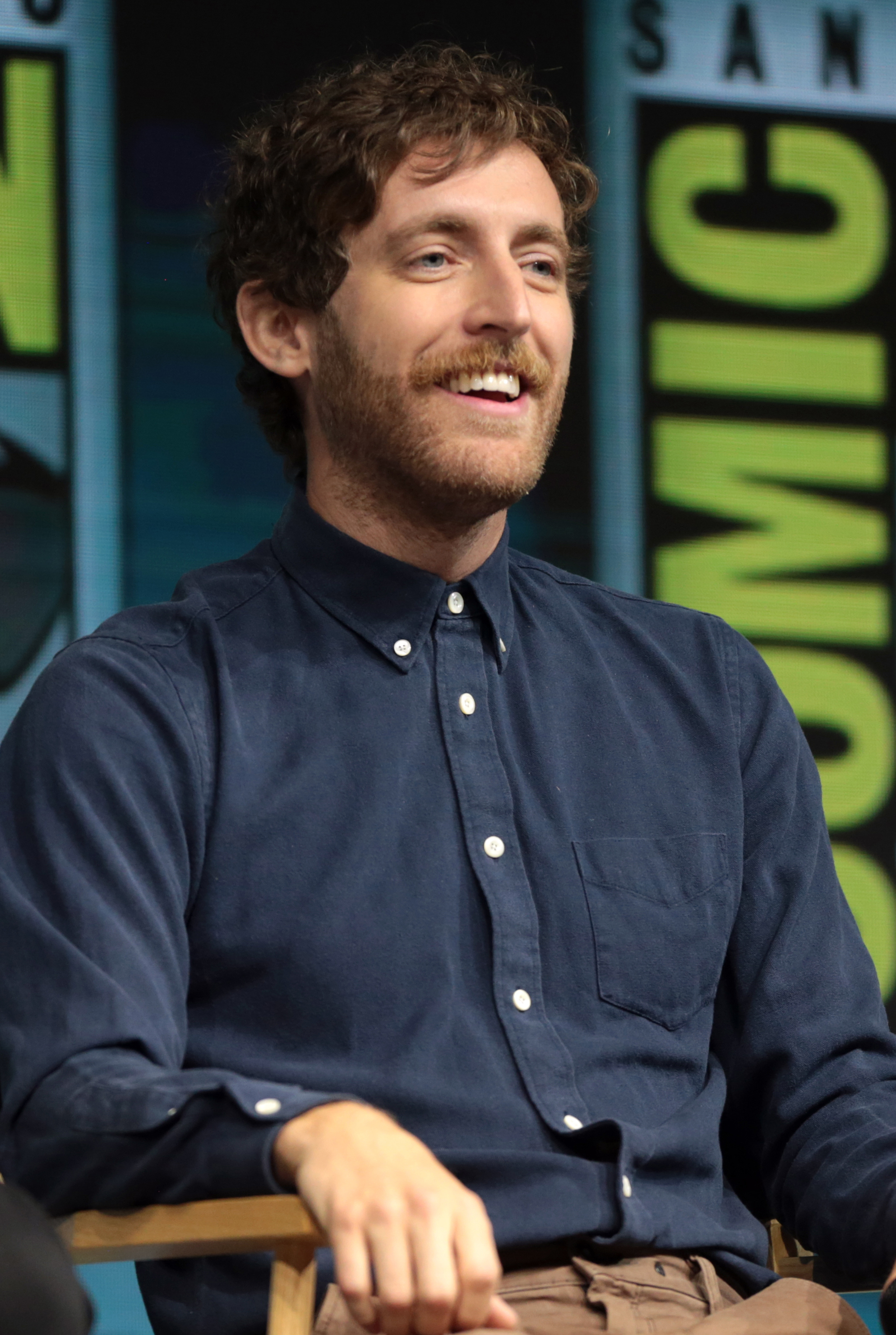 Thomas Middleditch speaking at the 2018 San Diego Comic-Con International in San Diego, California.